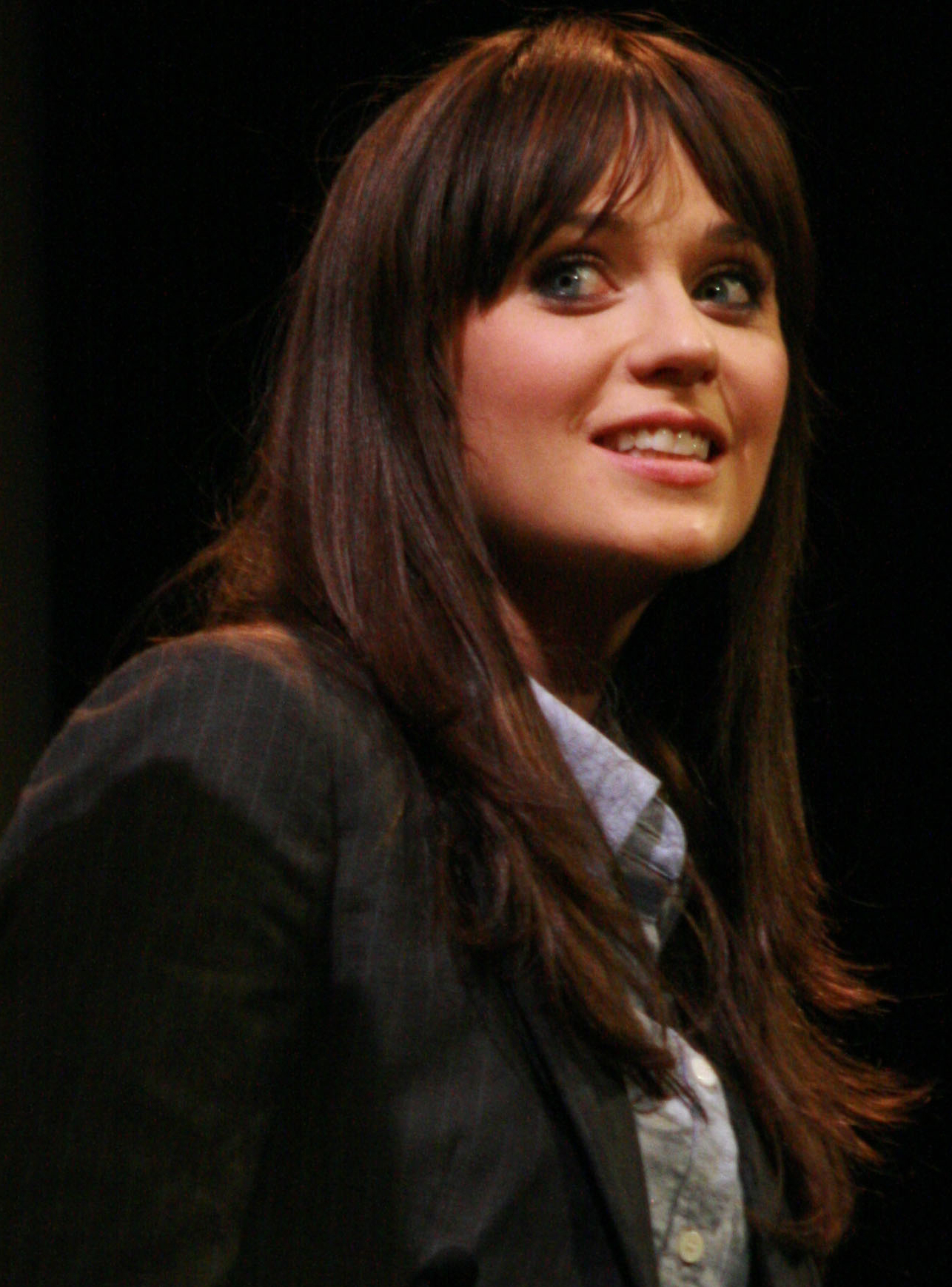 Zooey Deschanel at a premiere for (500) Days of Summer in March 2009.